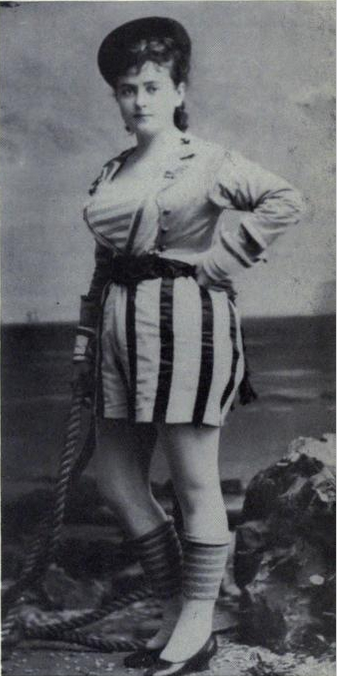 Scan of theatre card of Alice Atherton in Forty Thieves (1869)